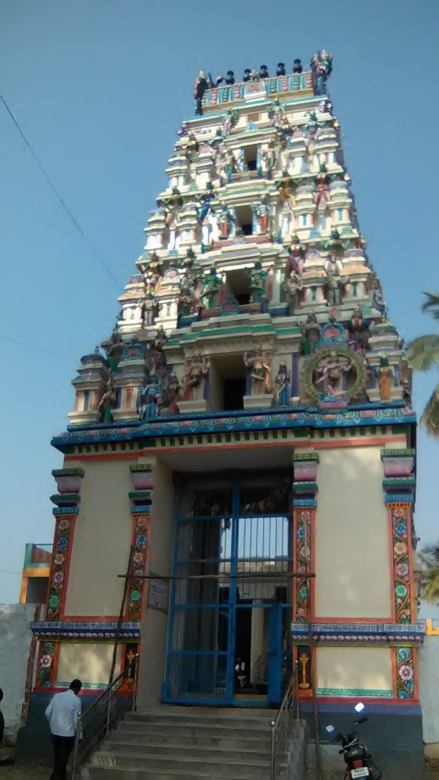 நெடுசாலை நடராஜ சுவாமி கோயில் என்பது தமிழ்நாட்டில் கிருஷ்ணகிரி மாவட்டம், நெடுசாலை என்னும் ஊரில் அமைந்துள்ள சிவன் கோயிலாகும்